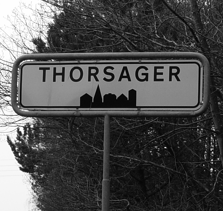 A city limit sign marking the city limits of Thorsager, Denmark. It has been heavily cropped, so the quality isn't the greatest.